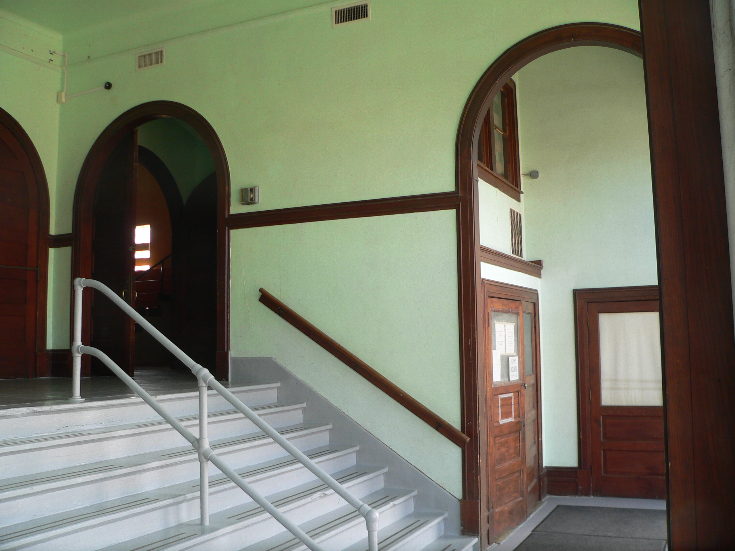 Interior of city auditorium in Hartington, Nebraska: entrance lobby, facing southeast. The doors at the top of the stairs both lead to the basketball court: the one partly visible at left directly (though it is now blocked), and the one at right via a second door at right angles. The door obliquely visible behind the stairs apparently leads down to the lower level of the building. The door to the right of that one was locked, and there was no indication of what lay beyond it.